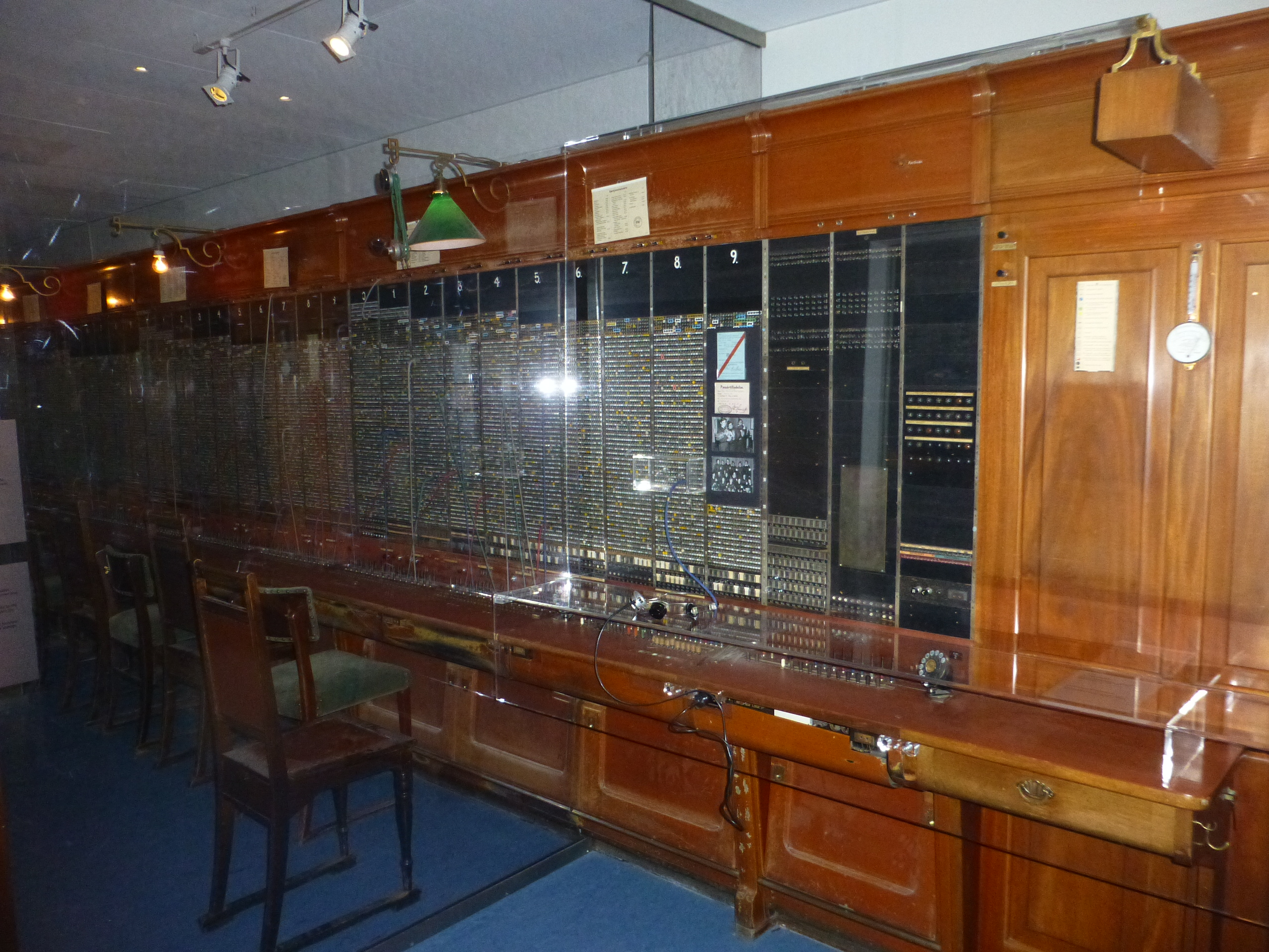 The Danish museum of communication, Post & Tele Museum, in Indre By in Copenhagen. Telephone switchboard from the telephone exchange in Hellerup.